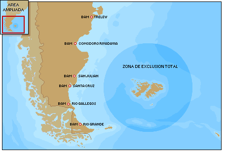 Argentine Air Force air bases during the 1982 Falklands War (Guerra de las Malvinas)